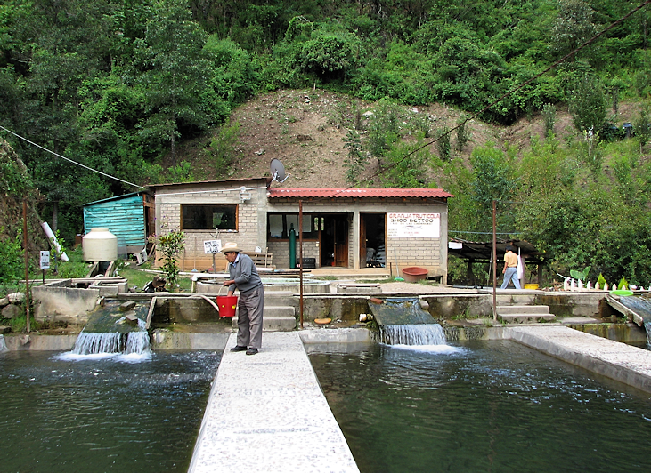 Zapotec "Shoo-Bettoo" fish farm near Ixtlan de Juarez, Oaxaca, Mexico.